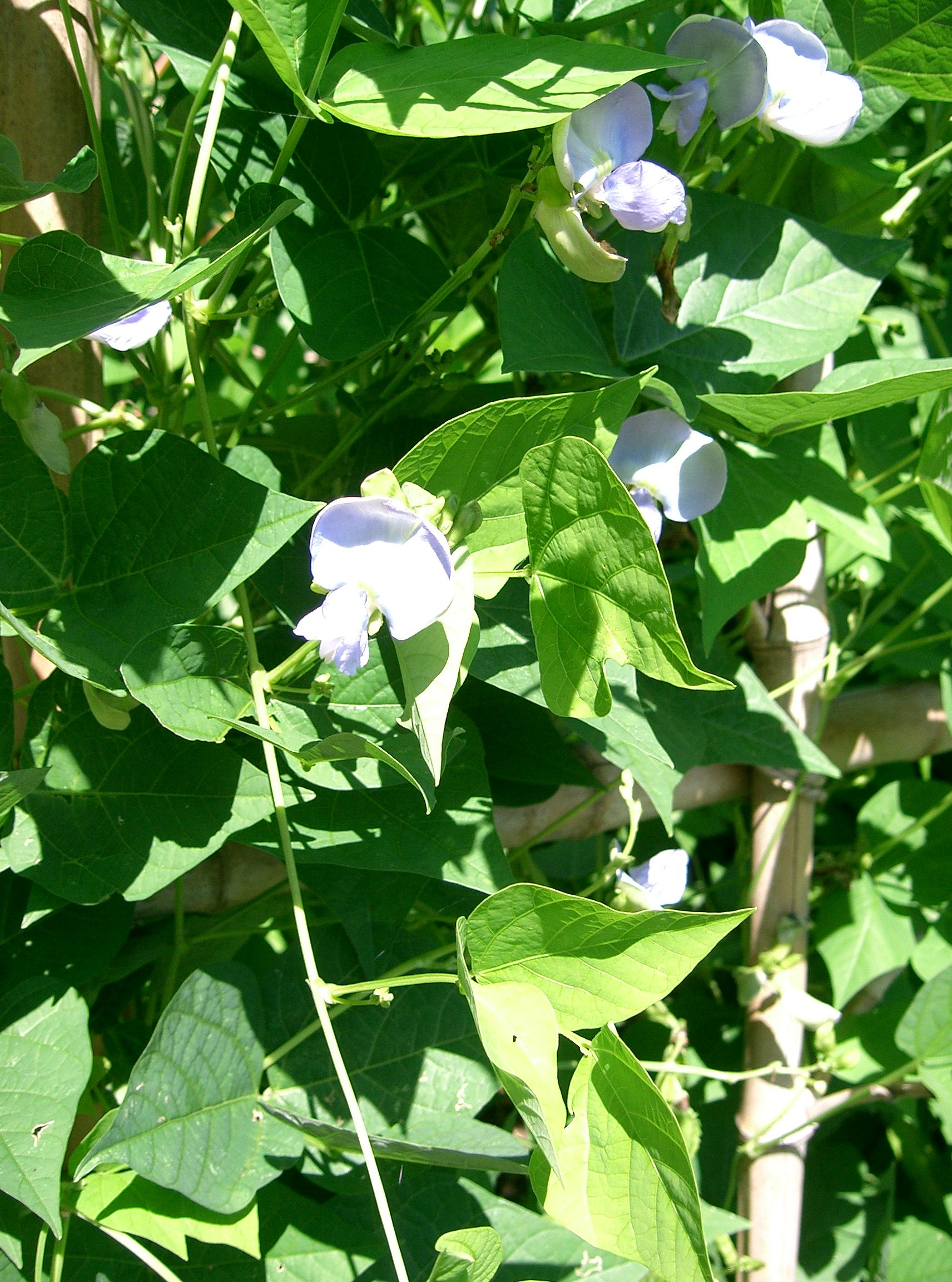 Psophocarpus tetragonolobus